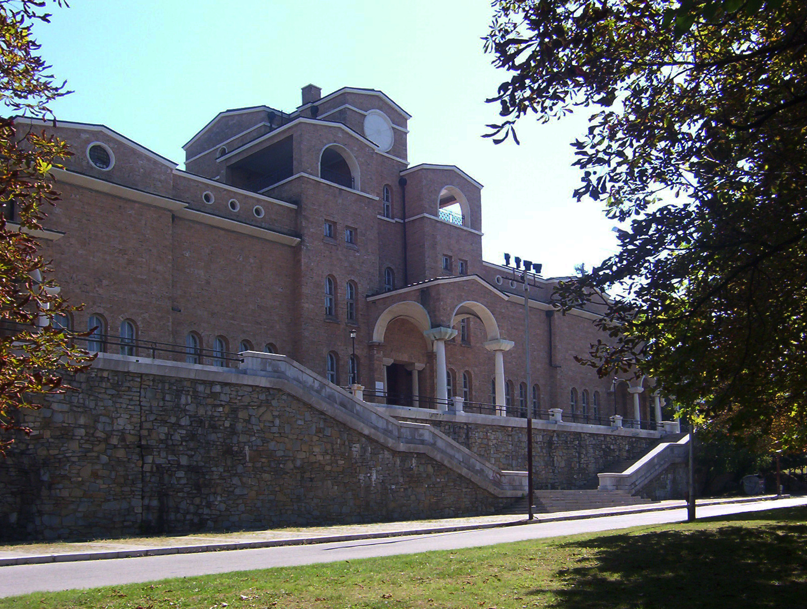 Town Gallery in Veliko Turnovo. Veliko Tarnovo (Bulgarian: Велико Търново, sometimes transliterated as Veliko Turnovo) is a city in north central Bulgaria